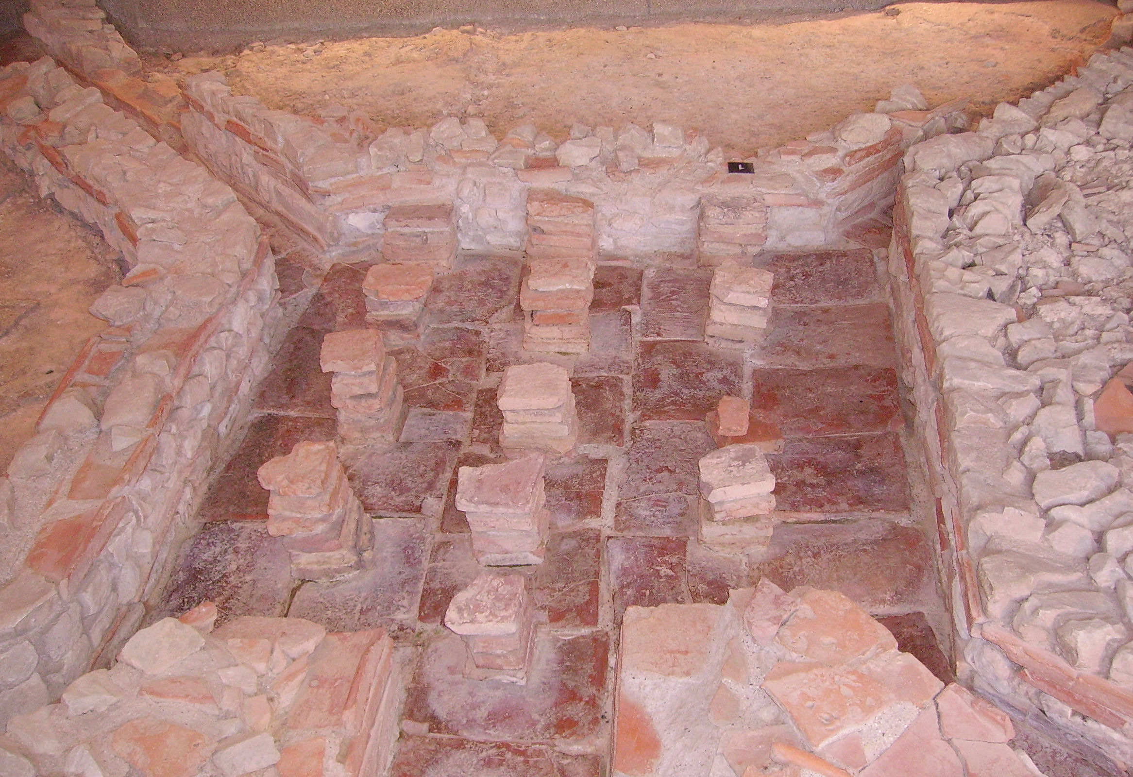 view of Fishbourne Roman Palace in West Sussex, United Kingdom